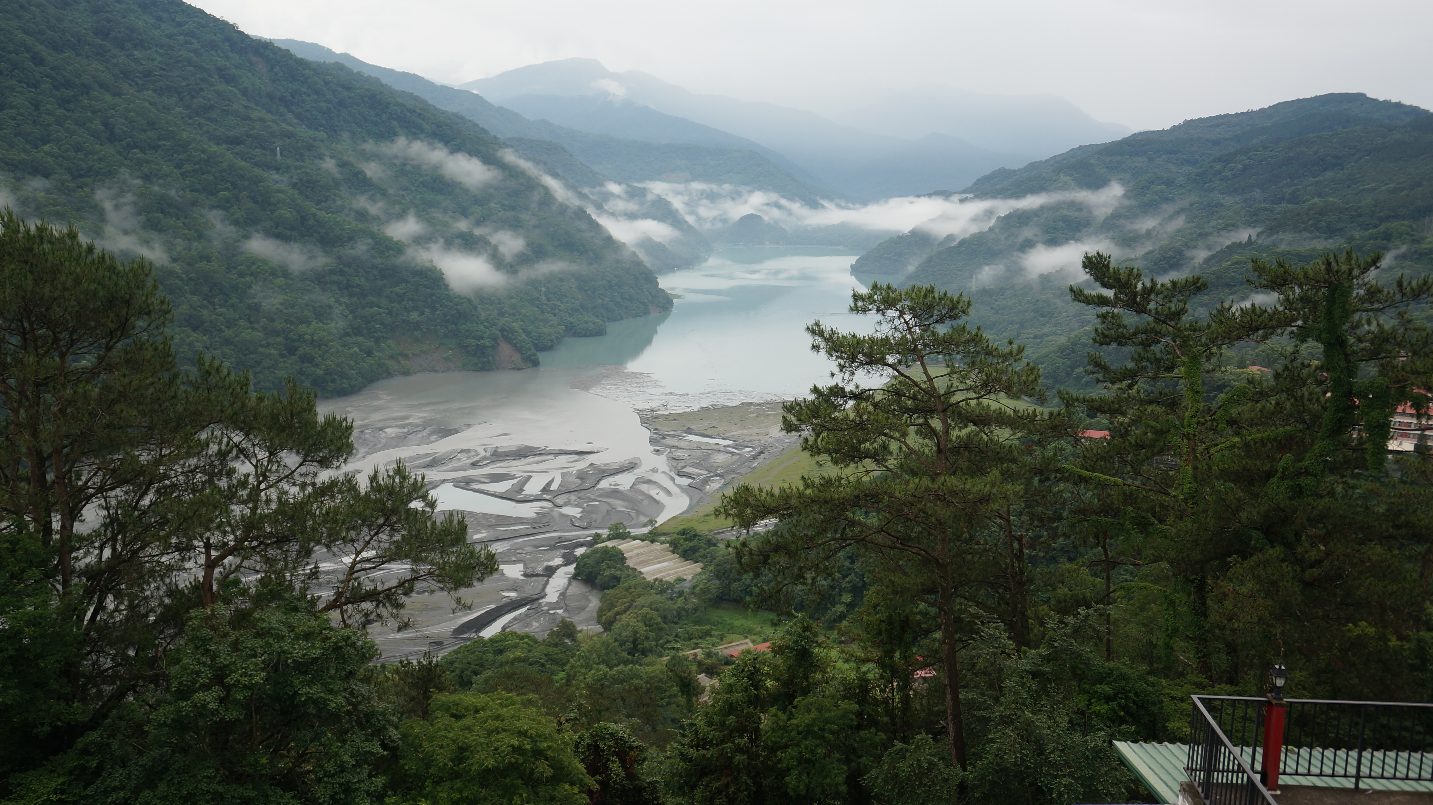 View looking south over Wushe Reservoir in Nantou County, Taiwan. Suspended sediment from Wushe River emptying into the reservoir. Wanda Dam can be seen in the distance in the centre of the picture.Wushe Reservoir is a reservoir in Nantou County formed at the Wushe River by the dam of the Wanda Power Plant. It lies within the Renai Township and named after the river. it was built in 1960 by a design from the United States Bureau of Reclamation. Because the source of the Wushe River is rainwater and snow meltwater from the mountain area of Rengao and Hehuashan, the river carries huge amounts of sediment, with an average annual suspended sediment load of over 1.77 million cubic meters. Over time, the capacity of the dam was almost entirely replaced by sediment. Live storage capacity of Wushe Reservoir had declined more than 11.12 percent to 47.26 million cubic meters against its original capacity of 150 million cubic meters because of sedimentation over the past 58 yearsr, from 1957 to 2015.